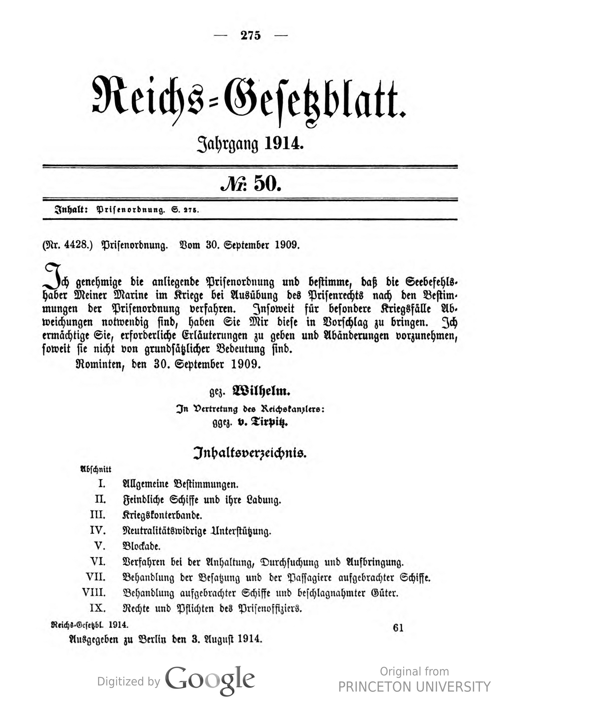 Scan from the Imperial Law Gazette of Germany, 1914